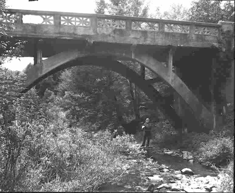 Side of the Bridge in Fishing Creek Township, which carries Legislative Route 19078 over Little Pine Creek east of Bendertown in Fishing Creek Township, Columbia County, Pennsylvania, United States. Built in 1915, this open spandrel concrete deck arch bridge is listed on the National Register of Historic Places.